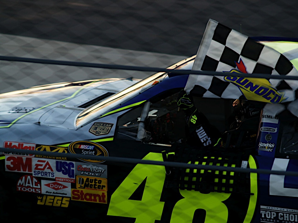 Johnson after winning the race